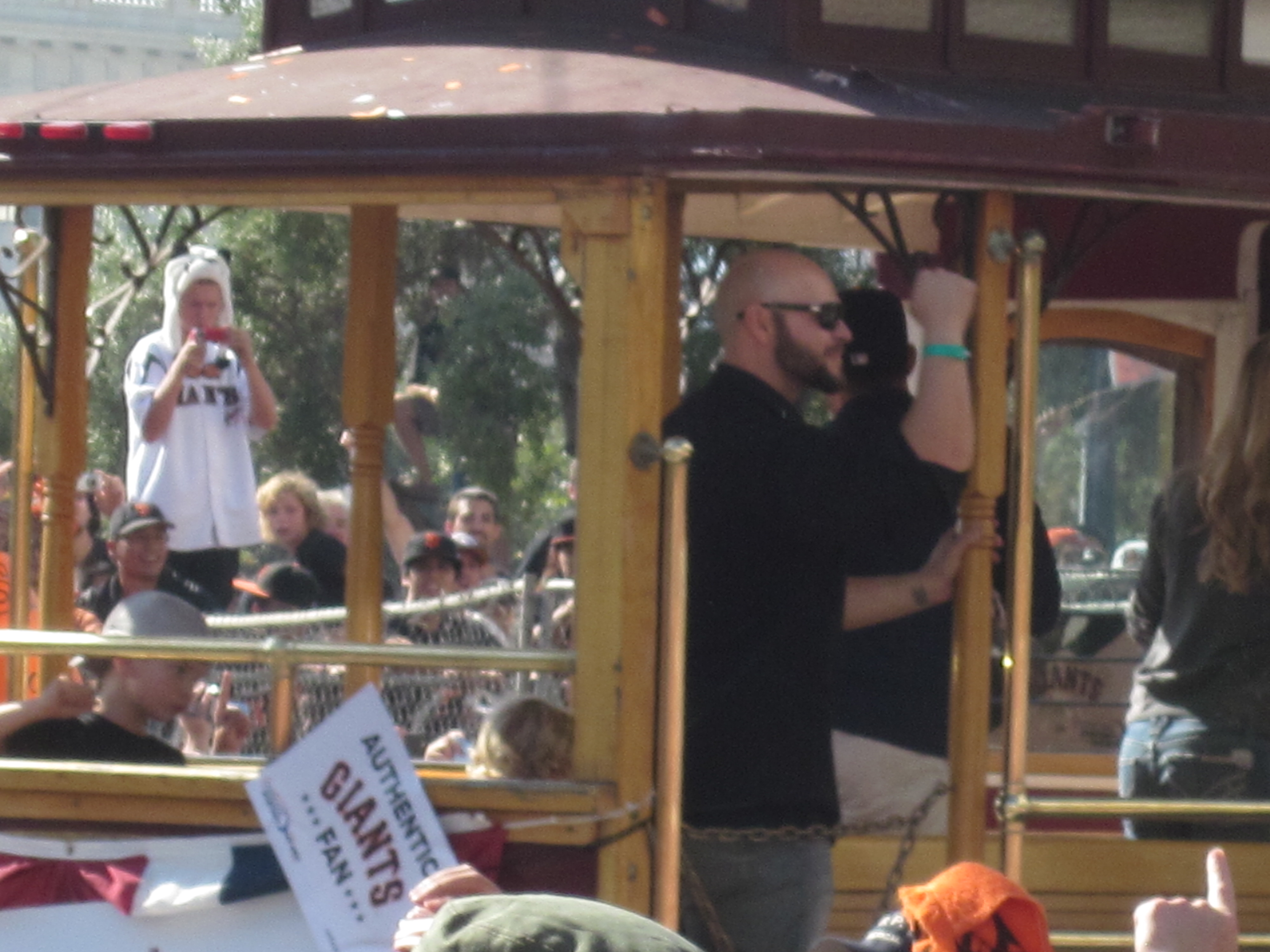 San Francisco Giants outfielder Cody Ross at the parade held in San Francisco to celebrate the Giants' winning of the 2010 World Series against the Texas Rangers.